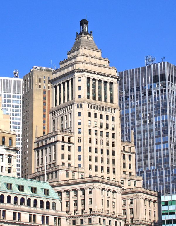 26 Broadway in Manhattan, New York City